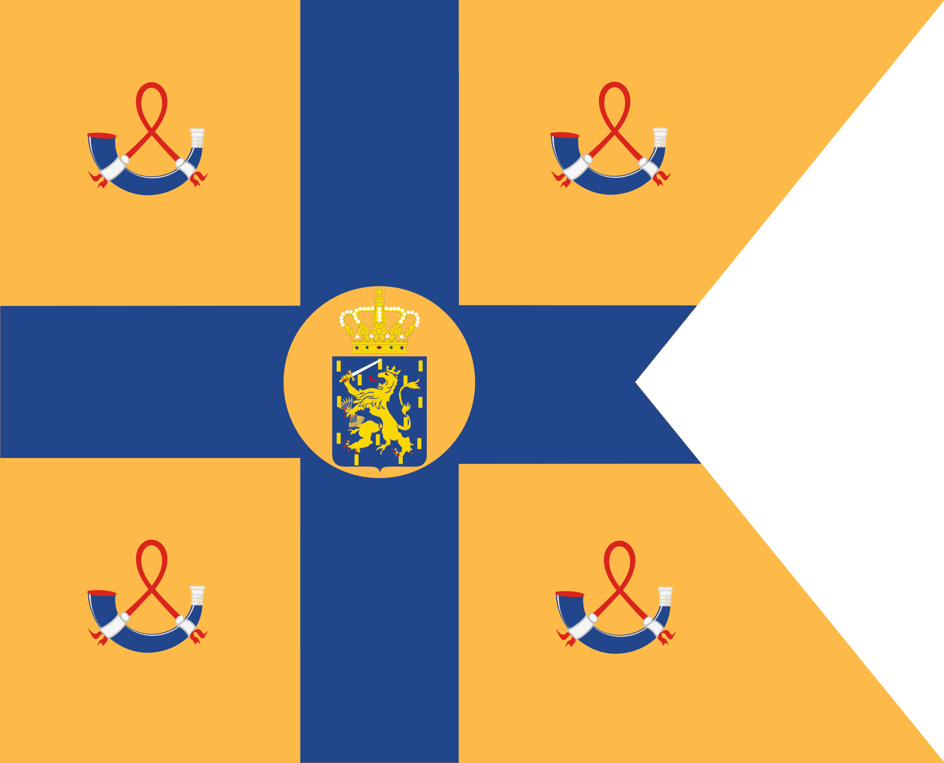 Standard of Queen Mother Emma of the Netherlands